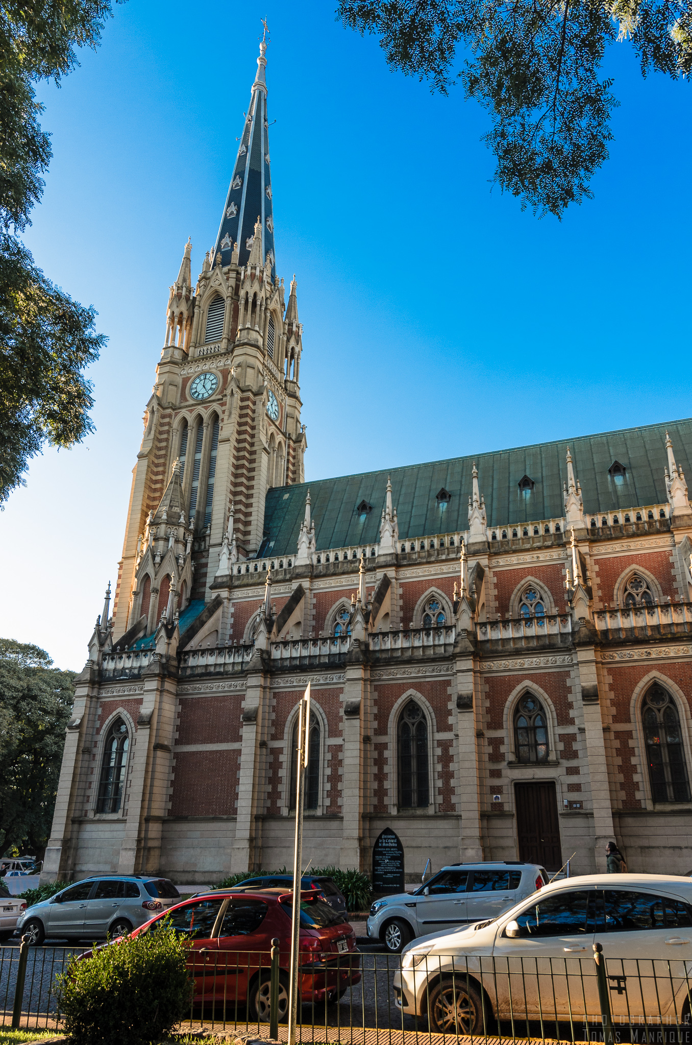 Lateral view of San Isidro Cathedral